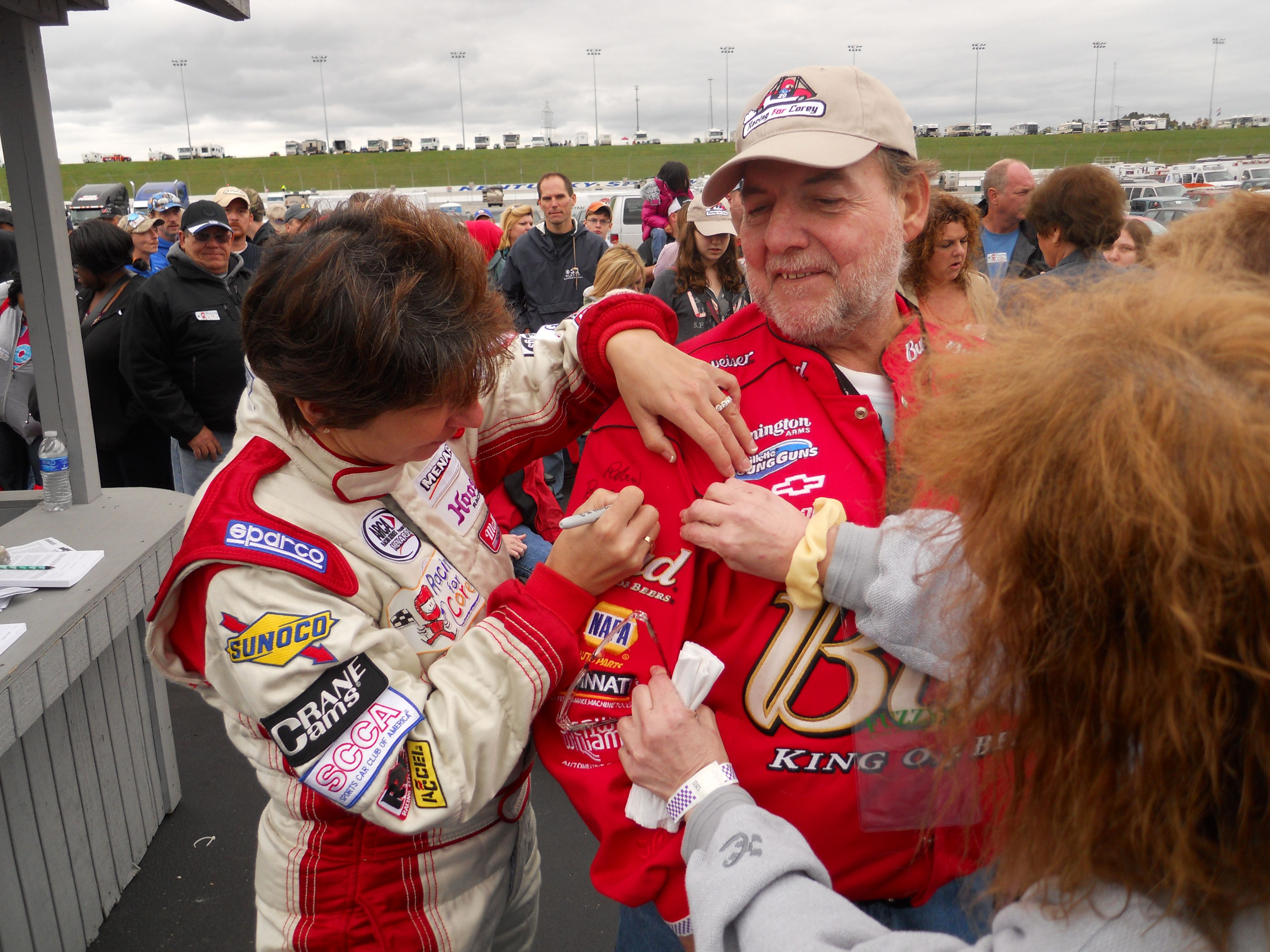 Robin Bonanno interacting with her fans